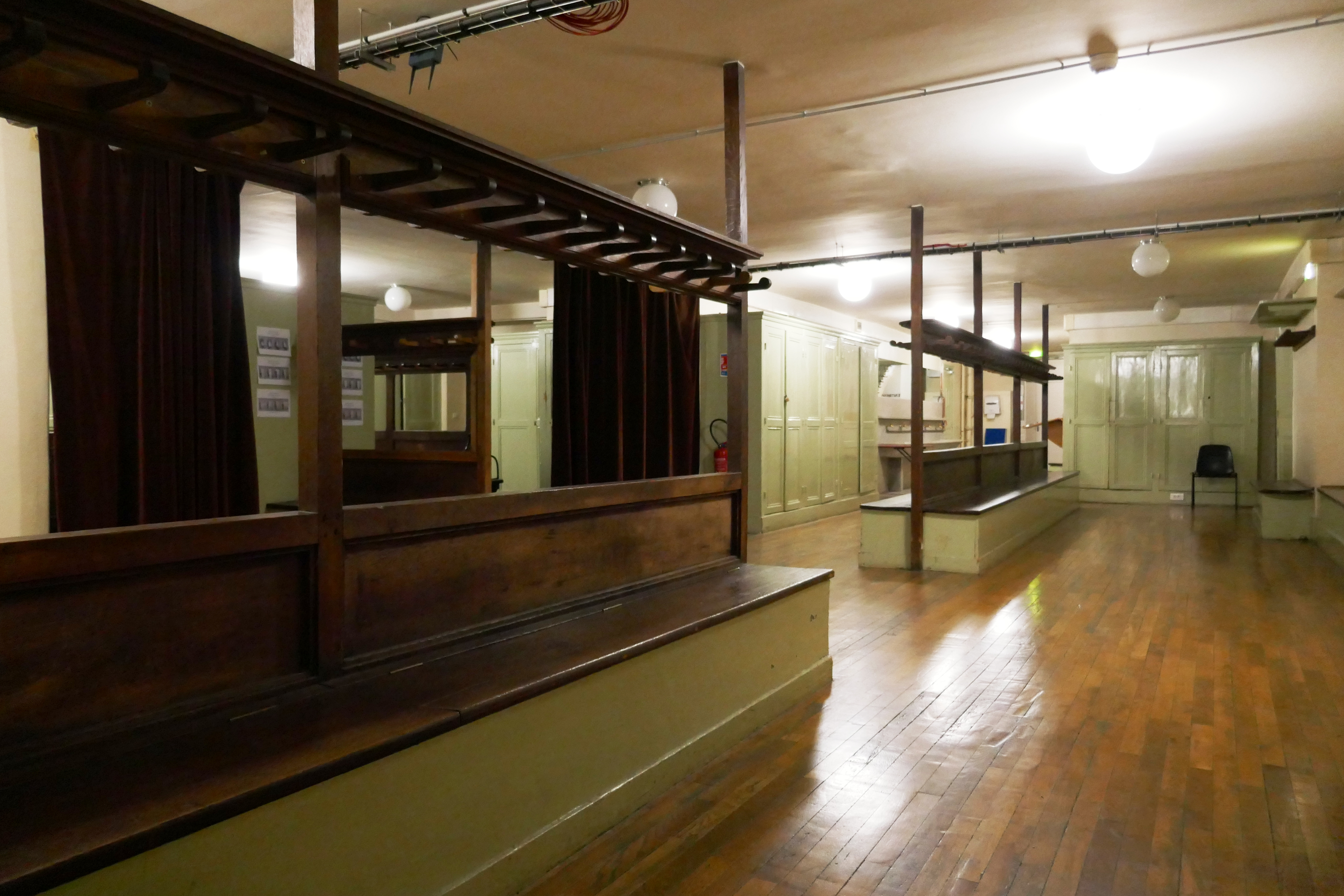 Opéra Garnier - Extras' locker